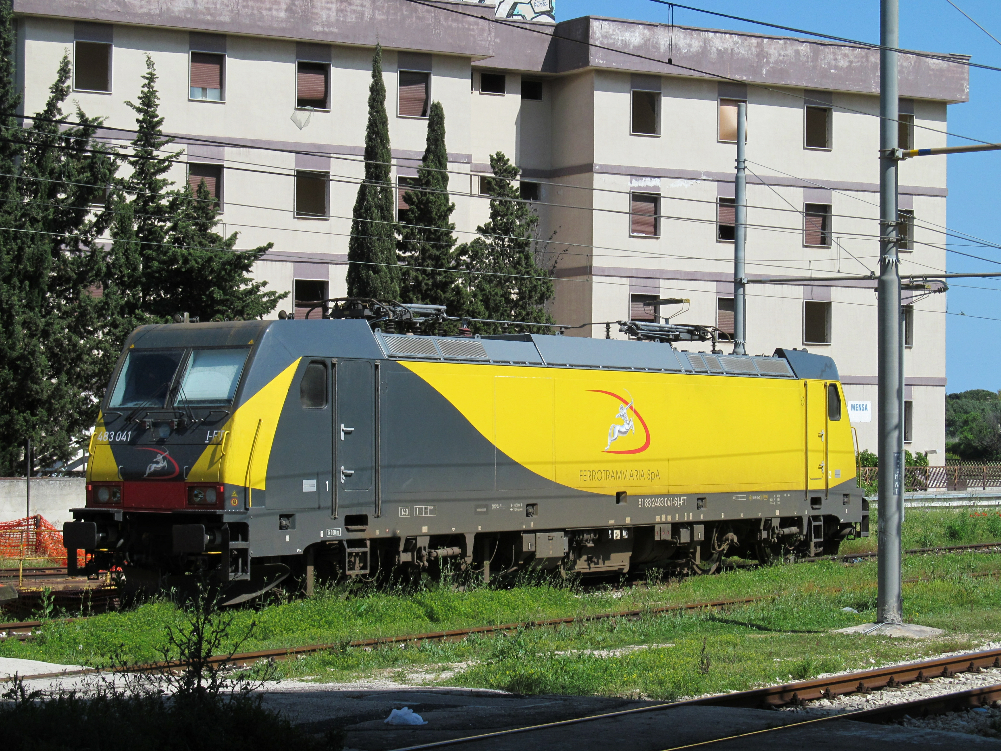 Ferrotramviaria E483 041 resting at Brindisi